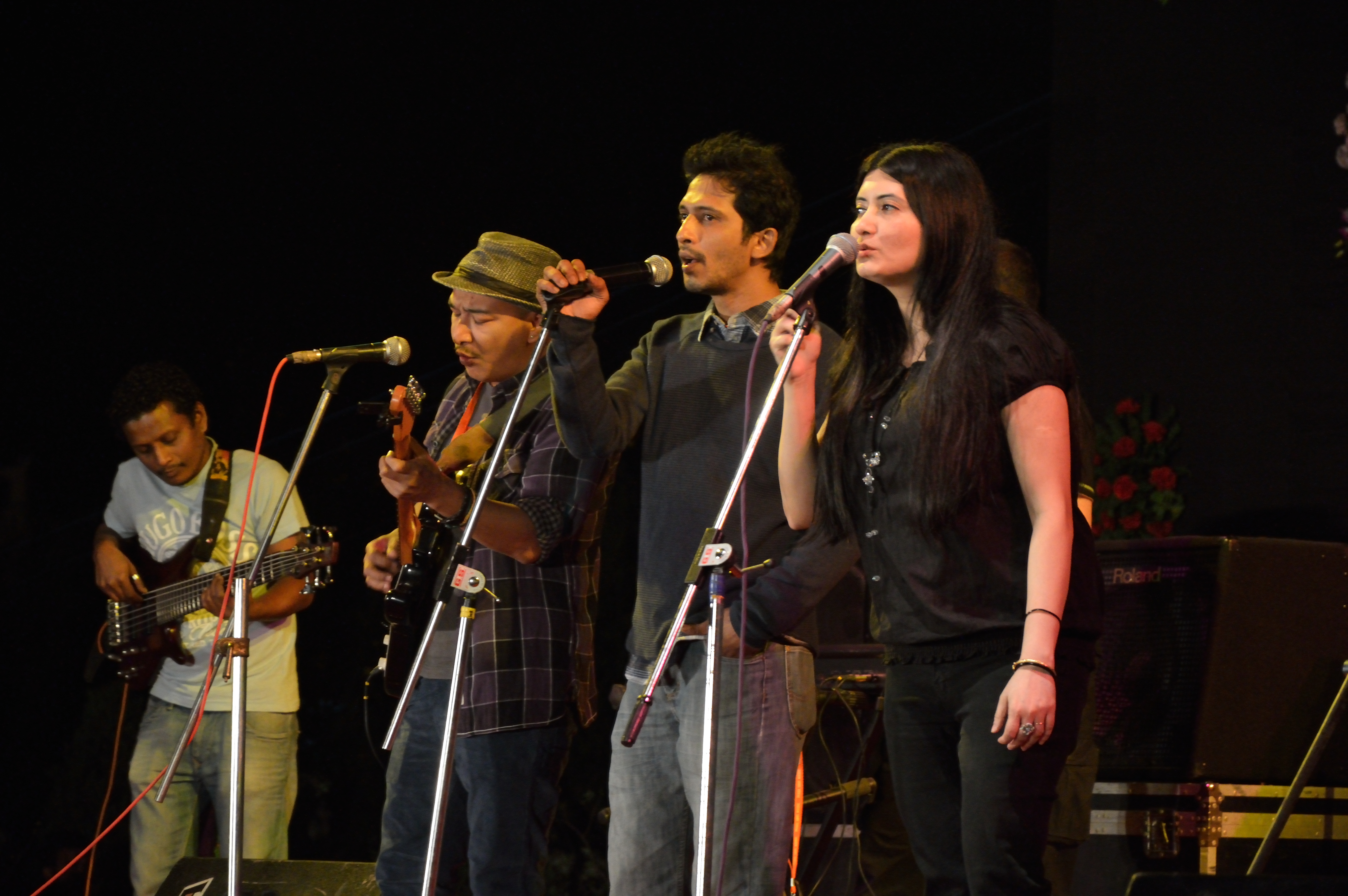 The 'Peace. Love. Music: Rocking The Region' - a multi-band concert that organized by the American Center, Kolkata in collaboration with banglanatak dot com was held at the Mohor Kunja, Kolkata on Saturday 14 December 2013 evening in front of about three thousand audience for three hours. The concert featured with 'Arnob and friends' from Bangladesh, 'Joint Family Internationale' from Nepal and 'Krosswindz' from India.